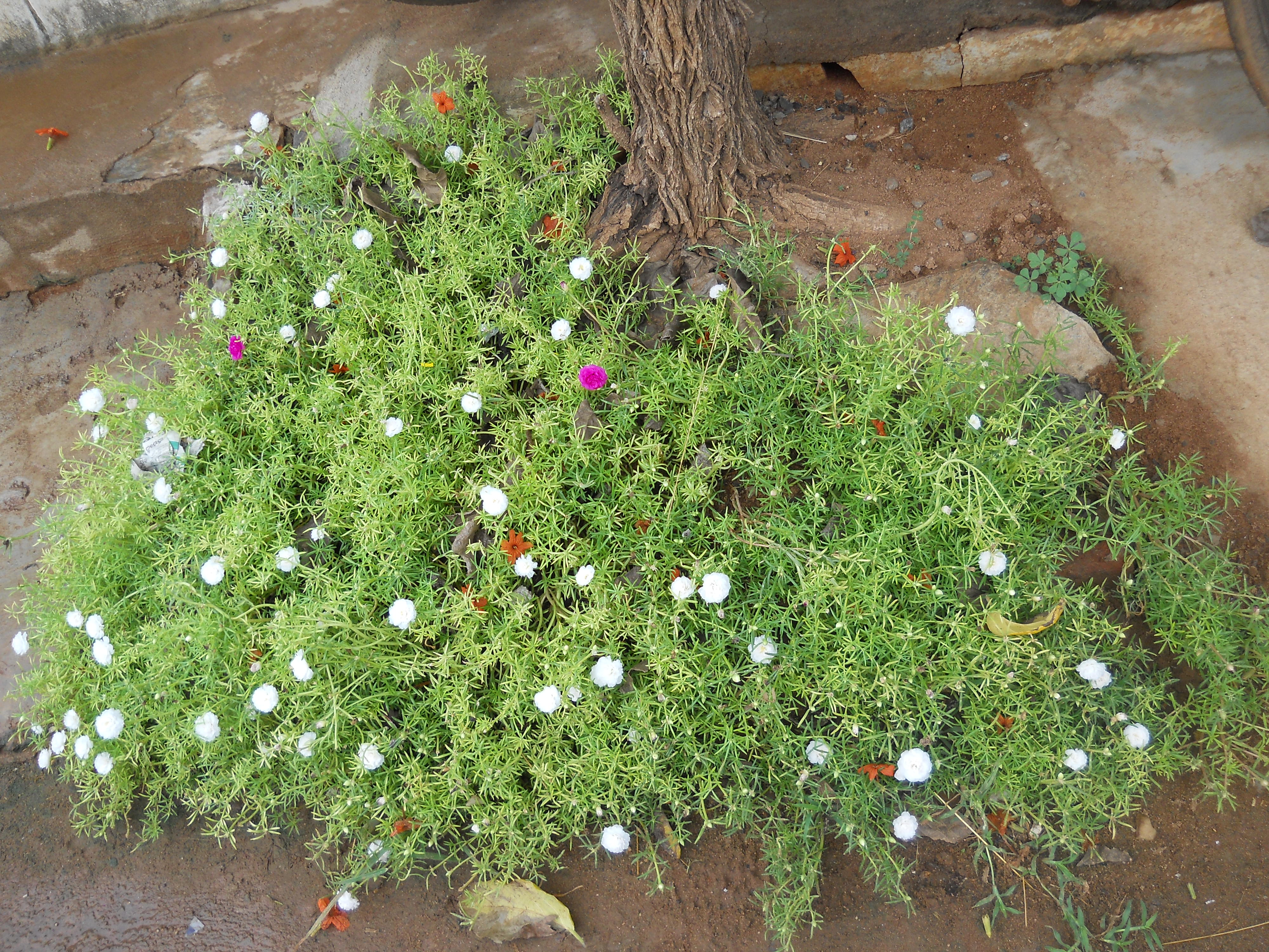 Portulaca grandiflora (Indian Table Rose) at Vinjamoor, Nellore (dt),A.P.